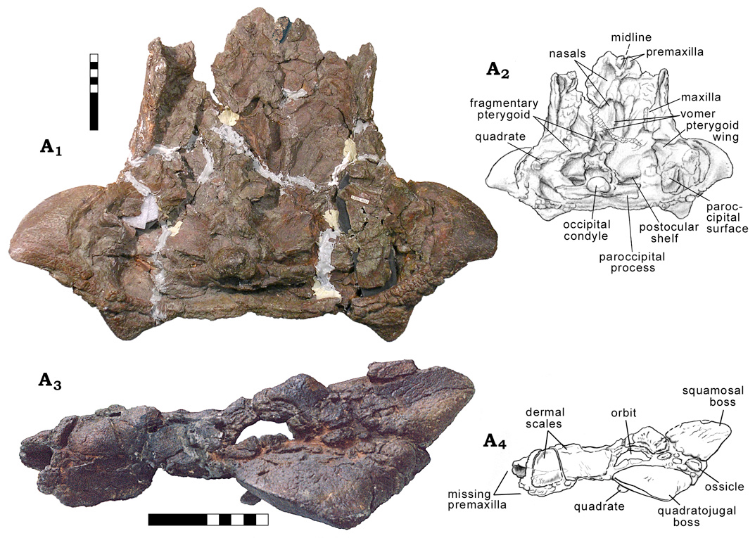 Skull of Oohkotokia horneri, gen. et sp. nov. (MOR 433, holotype) in A1, A2, ventral and A3, A4 lateral views. The ventral line drawing is based on a cast and shows fragments that are now missing from the actual fossil (see text for explanation).